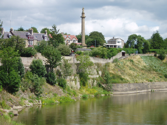 The Nun's Walk and Marjoribanks Monument, Coldstream. The Nun's Walk follows the line of the wall in my photo and is associated with a Cistercian Priory which used to be found along this walkway. However no trace of the Priory can be found now as it was destroyed during cross border conflict. The Marjoribanks Monument stands 70ft high and was erected in 1834 to the memory of Charles Marjoribanks who was first MP for Berwickshire after the Reform Act of 1832.